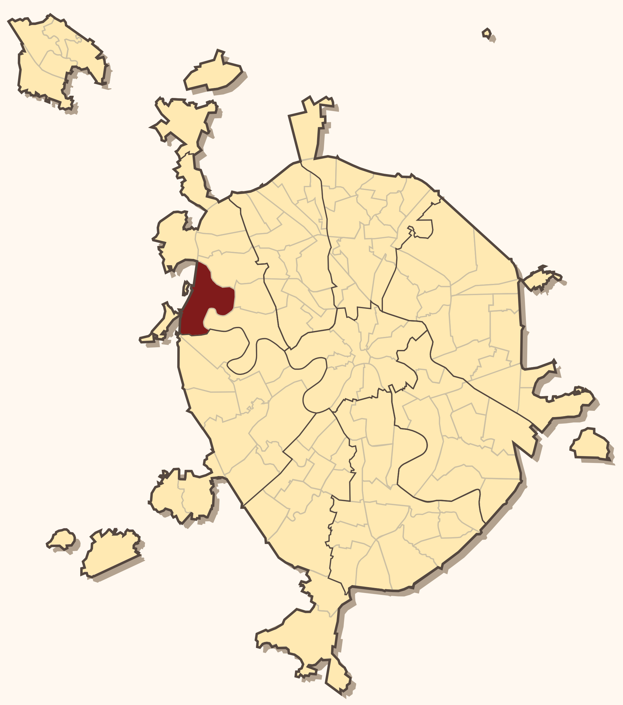 Moscow districts map